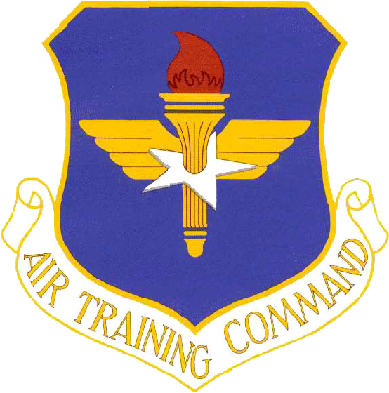 Emblem of the USAF Air Training Command